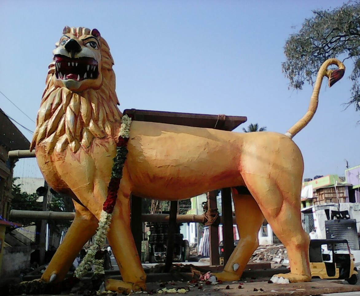 கிருஷ்ணகிரி மாவட்டம், ஒசூர், சந்திரசூடேசுவரர் கோயில் சிம்ம வாகனம்